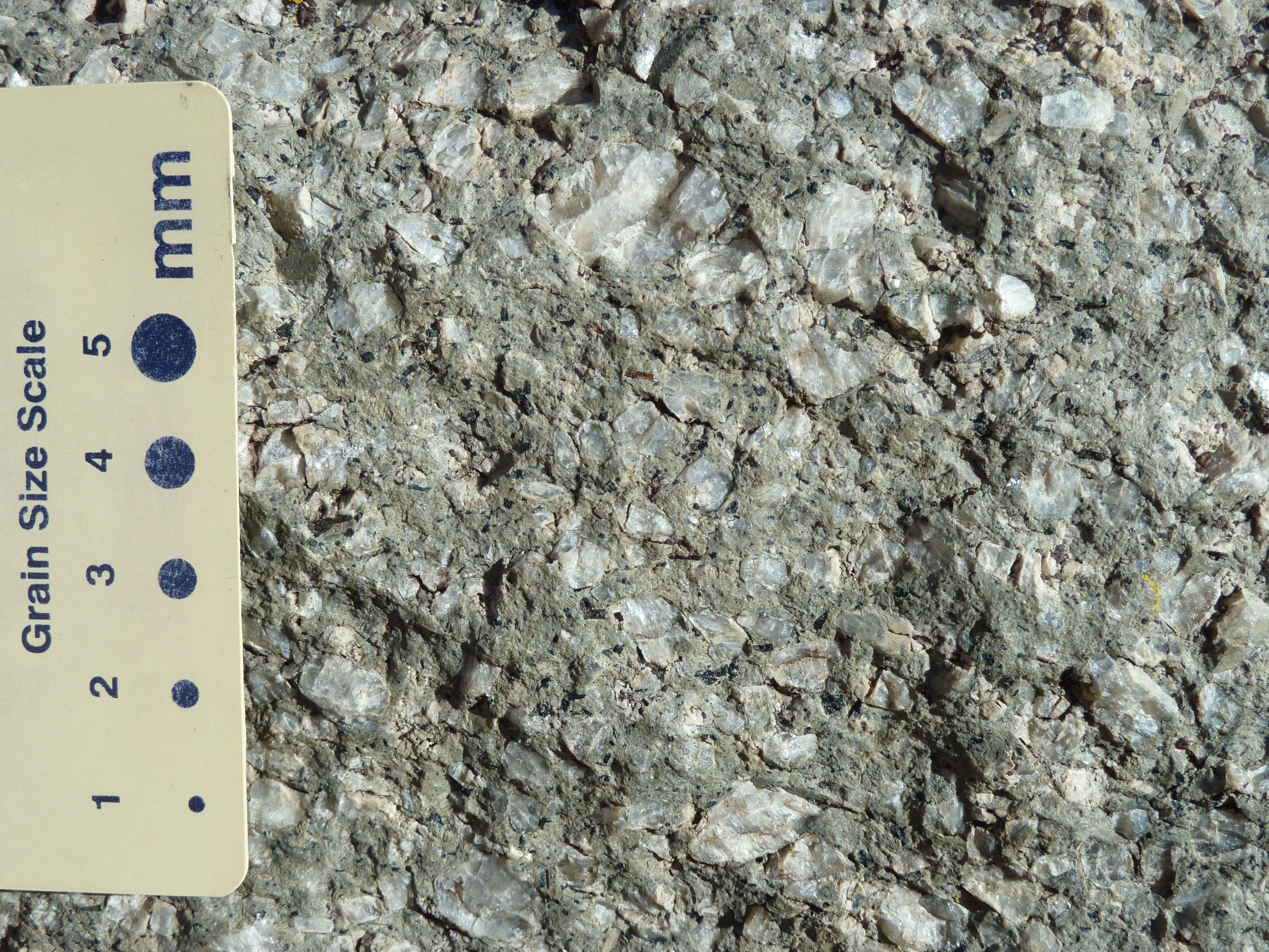 Phonolite porphyry of Devils Tower in Wyoming in USA, with scale.